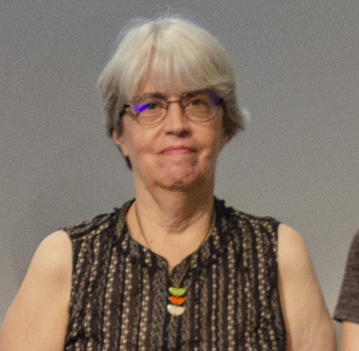 ISMBECCB 2019 2019 ISCB Fellows Thomas Lengauer and Bonnie Berger welcome the new Fellows. Marie-France Sagot and Xiaole Shirley Liu Absent: Vineet Bafna and Eleazar Eskin